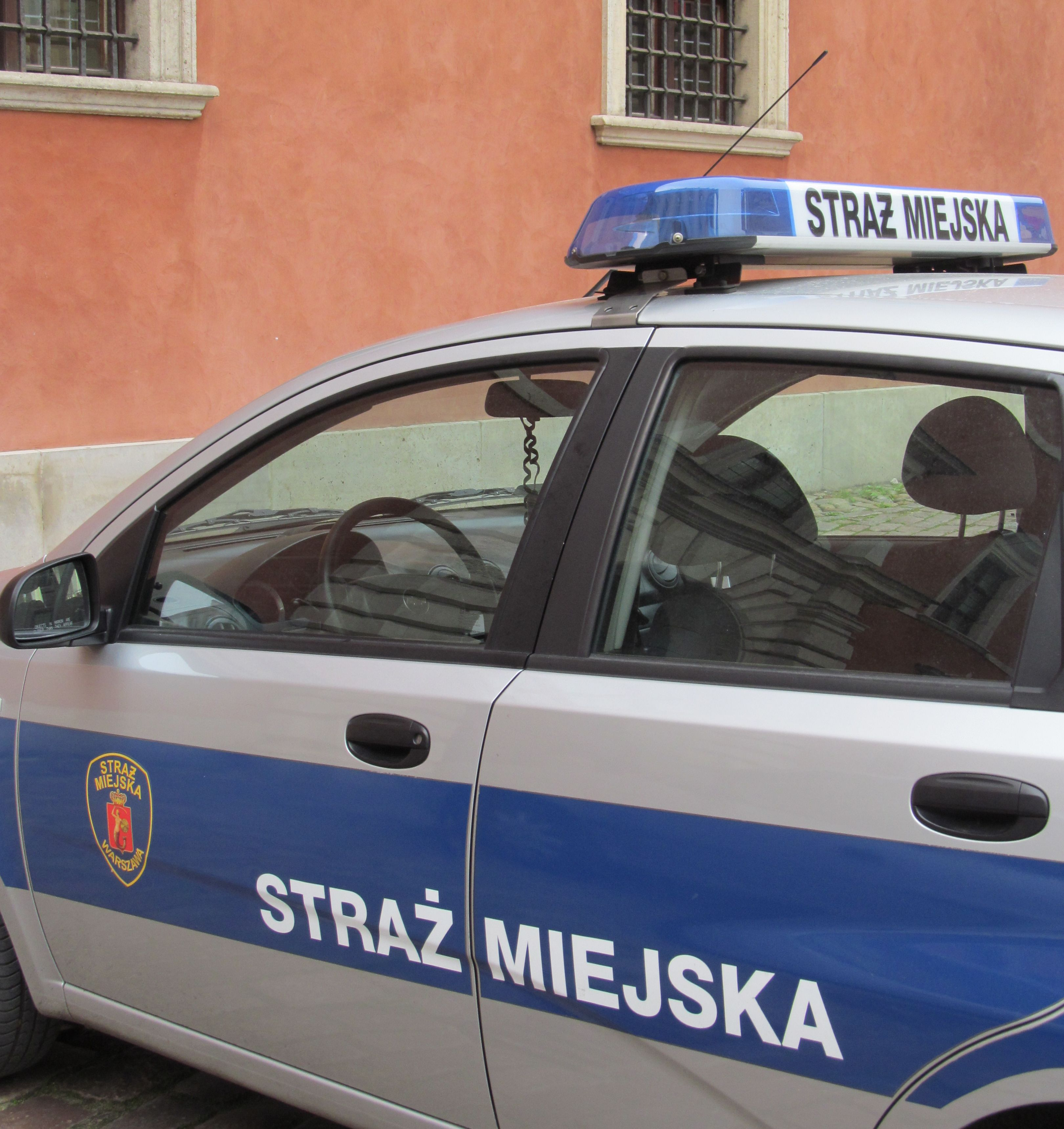 Car of Polish City Guard (Straż Miejska), in Warsaw Old Town